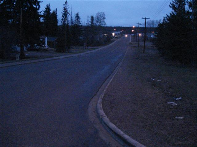 Main Street in Fort Vermillion.